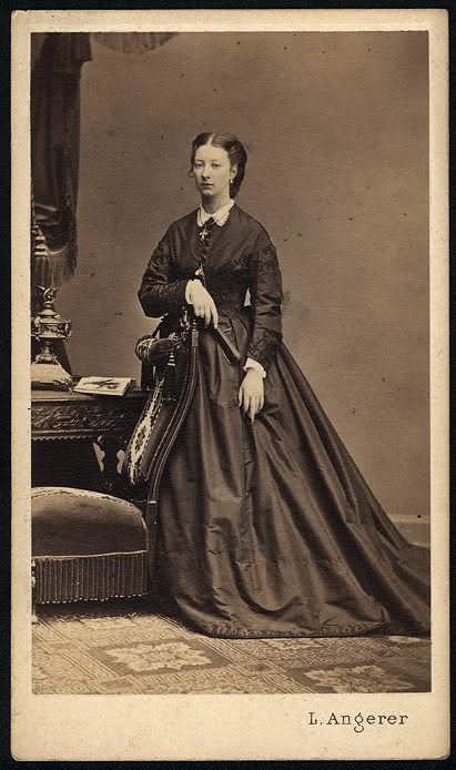 Princess Marguerite Adélaïde of Orléans (1846-1893), Second wife of Prince Ladislaus Czartoryski; and a granddaughter of King Louis Philippe I of the French